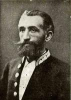 Charles Buls, Mayor of Brussels (1881-1899)